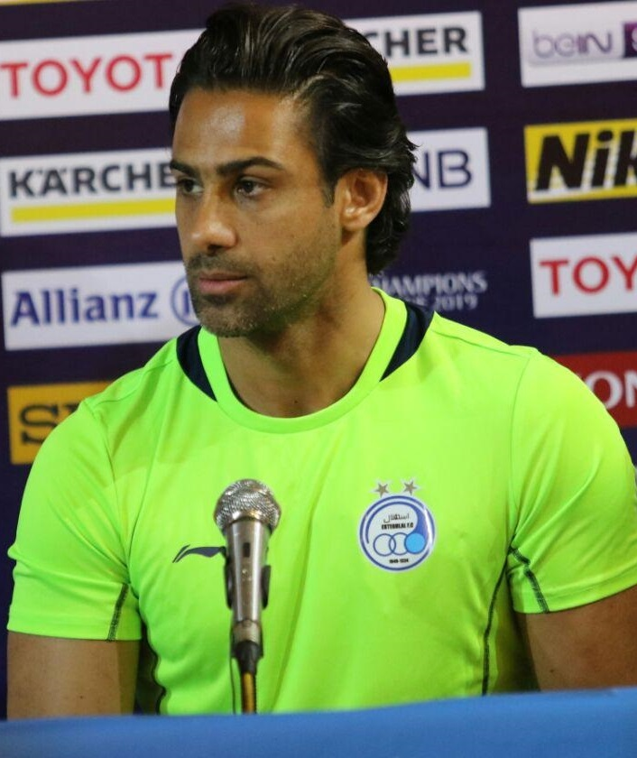 Farhad Majidi